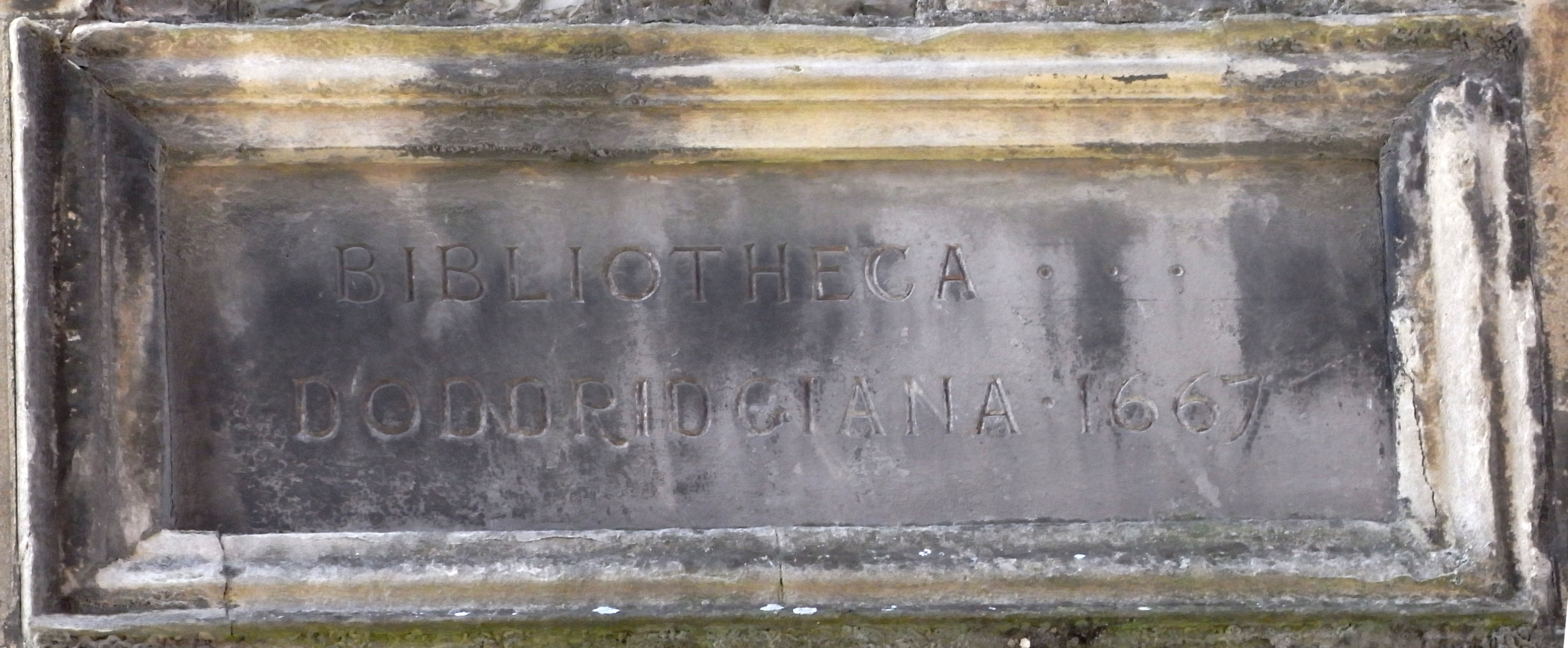 Stone tablet and date stone set into wall of The Dodderidgian Library, Barnstaple, Devon, England, founded in 1667, inscribed: Bibliotheca Doddridgiana 1667.